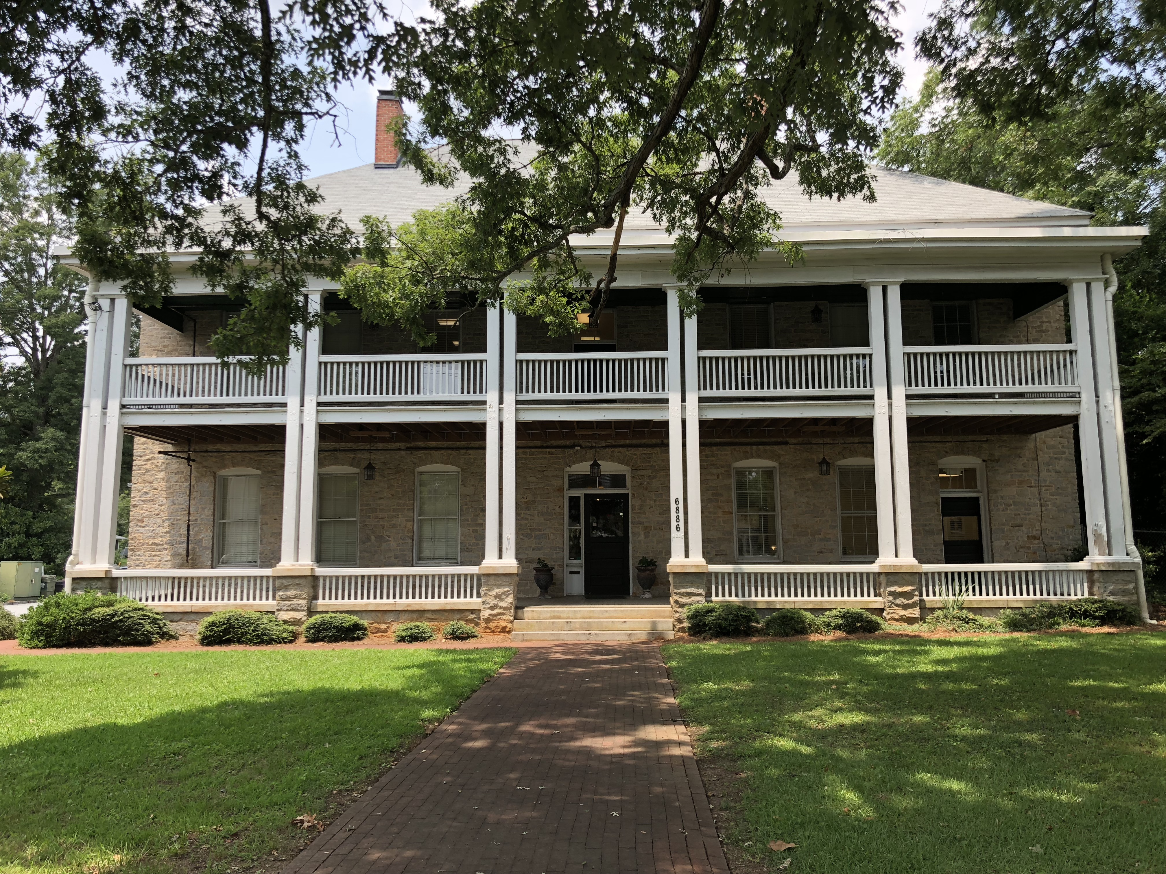 A view from directly in front of the structure, showing the stone facade, two-story veranda, hipped roof and at least one chimney.